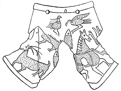 Drawing of a ceramic piece